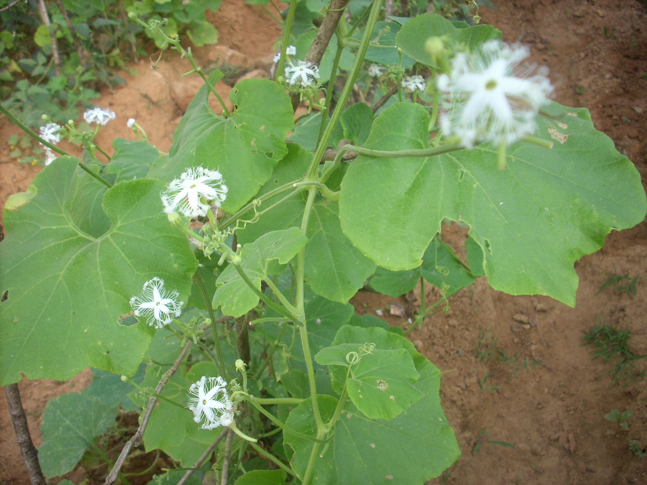 snaps around from my home This media file is uploaded with Malayalam loves Wikimedia event - 2.